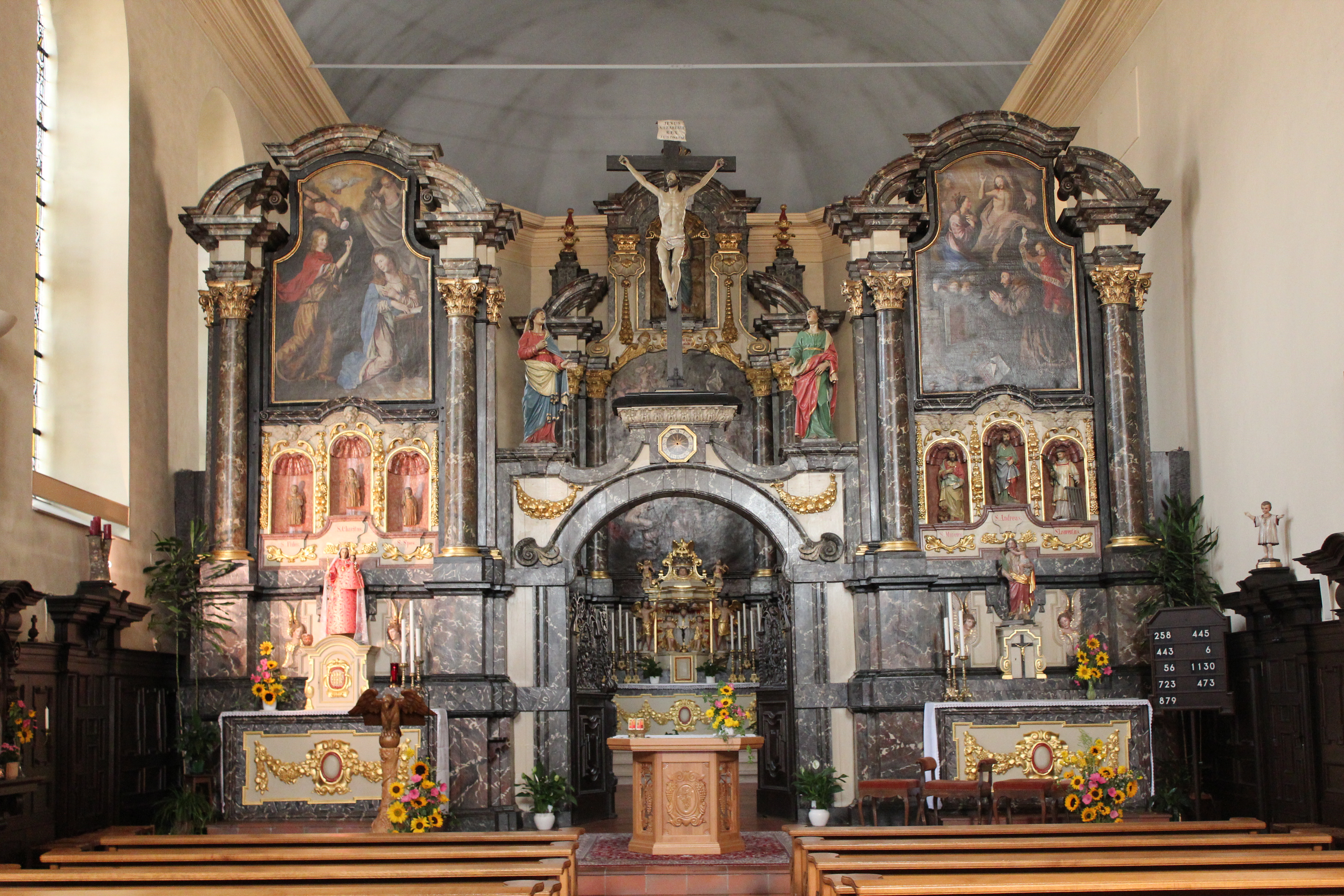 Eglise Saint-André Troisvierges, Luxembourg. Cultural heritage monument ("monument national")